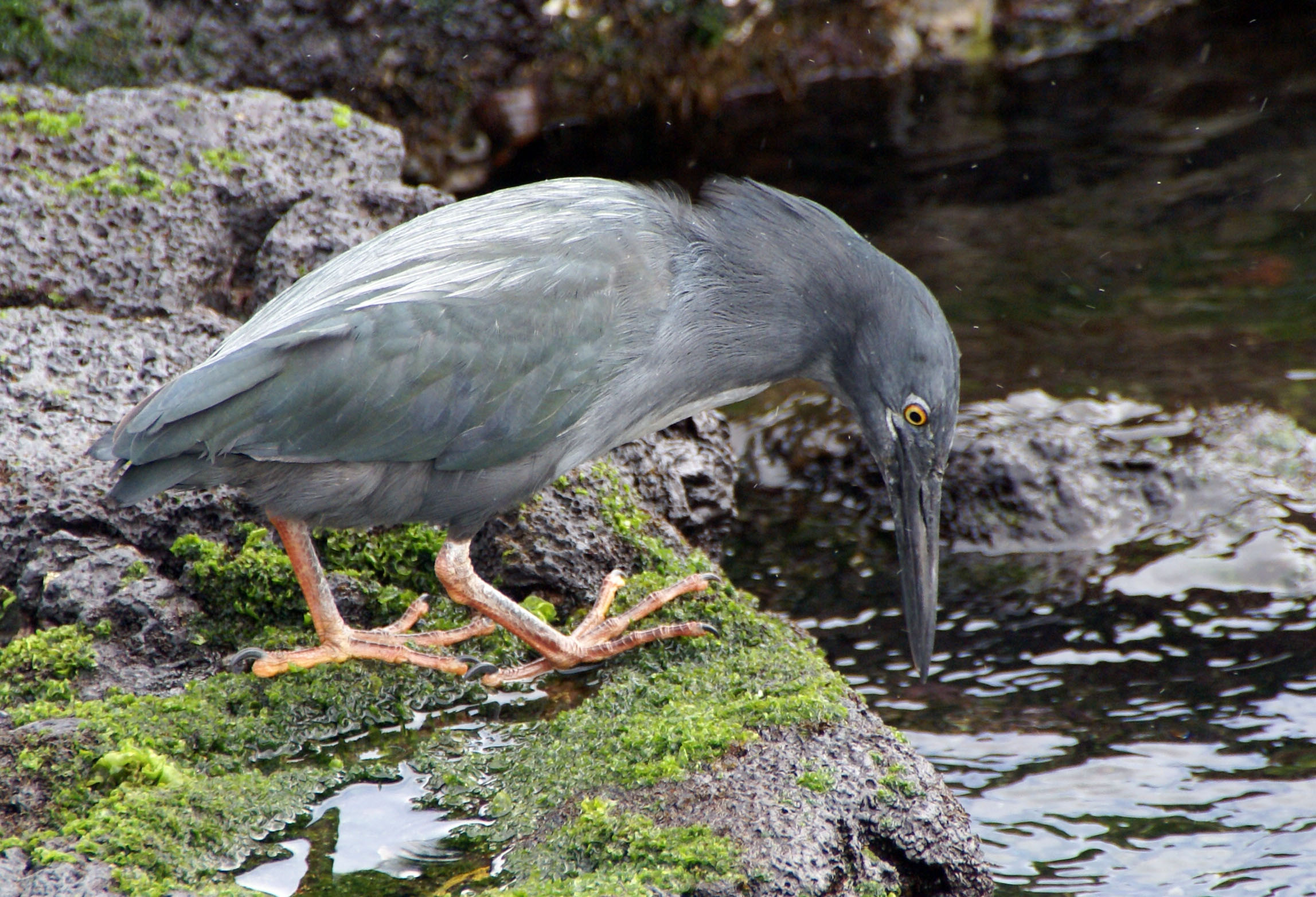 lava heron (Butorides sundevalli) fishing on Galapagos.